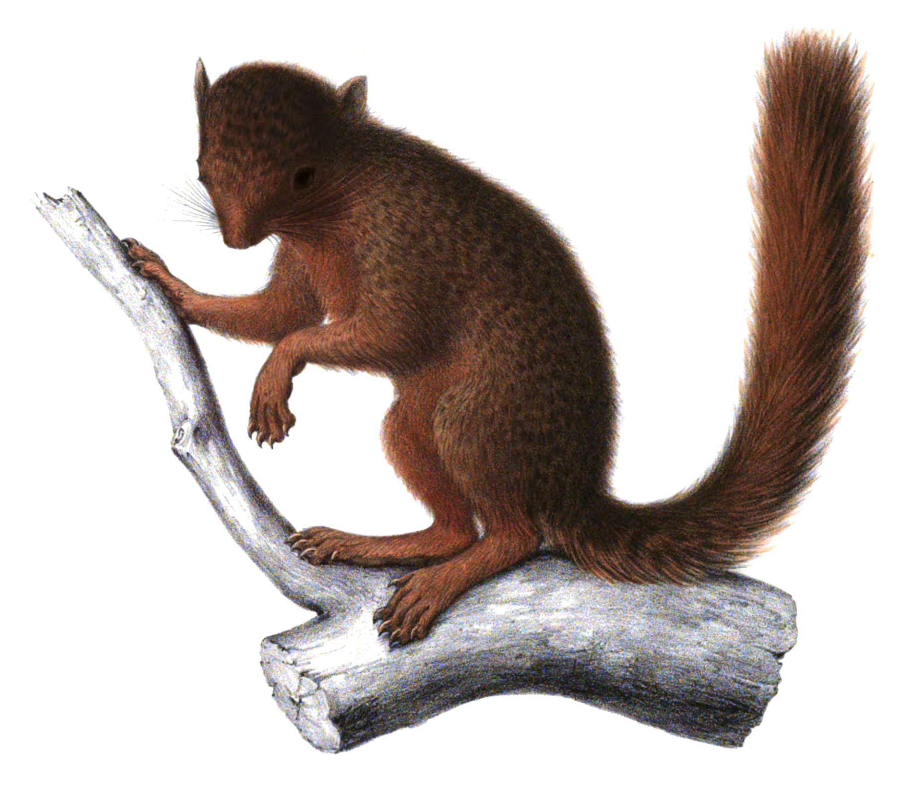 Drawing of Paraxerus palliatus, printed in Wilhelm Peters: Naturwissenschaftliche Reise nach Mossambique: auf Befehl seiner Majestät des Königs Friedrich Wilhelm IV in den Jahren 1842 bis 1848 ausgeführt. Berlin, 1852, pp. 1–205 (pl. 31)